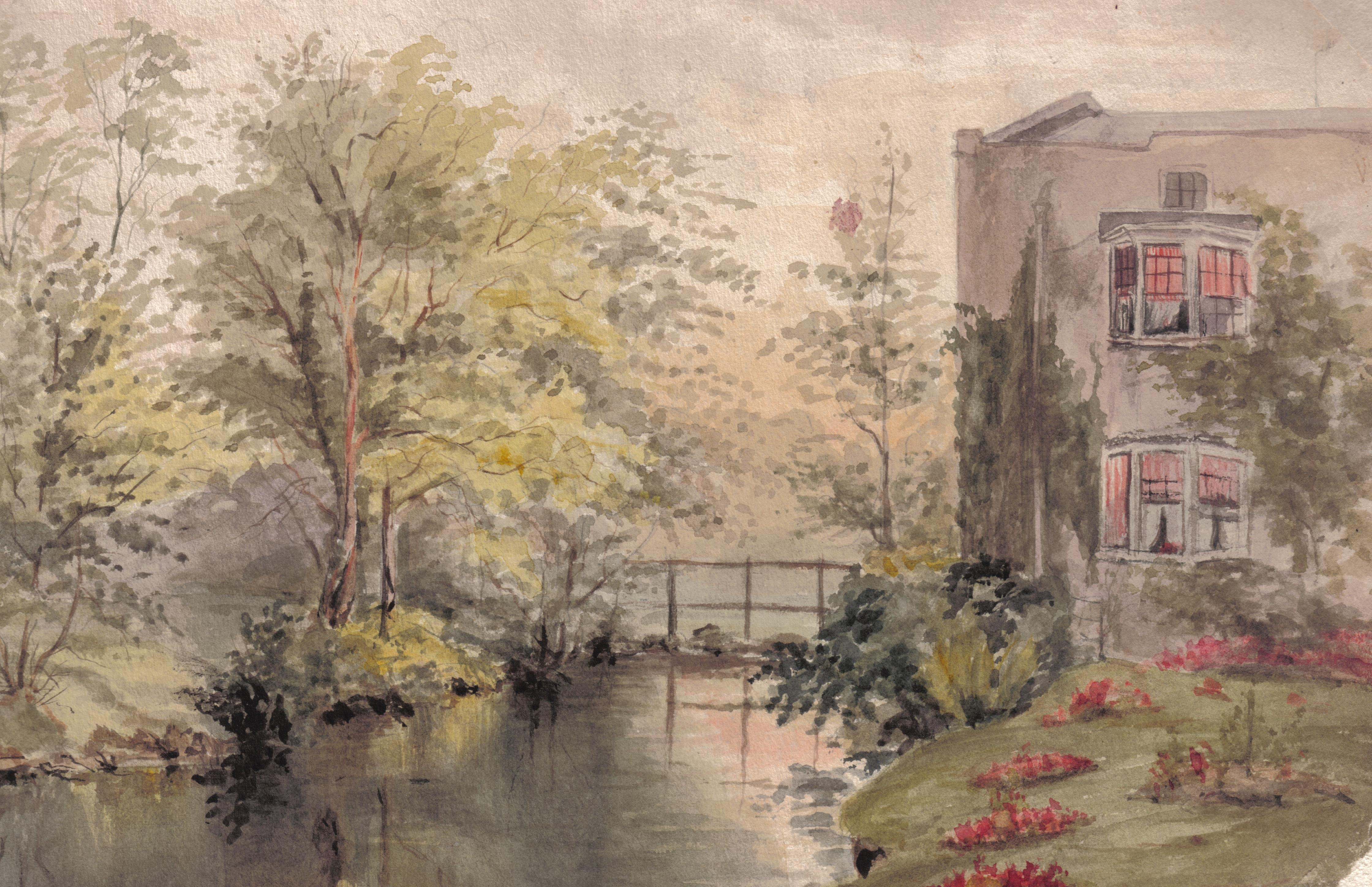 Sandleford Cottage, Newbury, England.